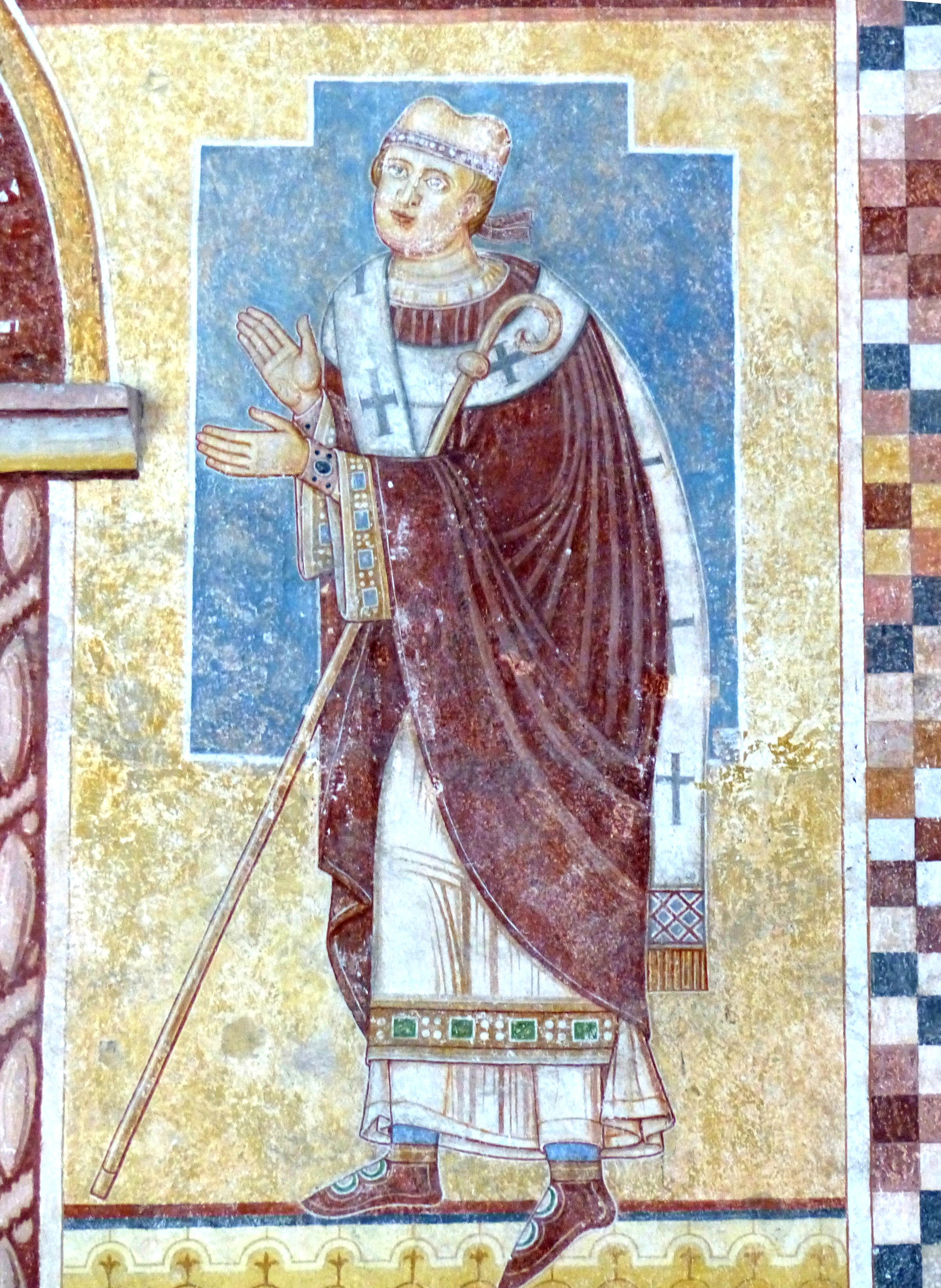 Regensburg-Prüfening ( Upper Palatinate ). Saint George abbey church ( 1130 ) - Romanesque frescos: Otto bishop of Bamberg.This is a photograph of an architectural monument.